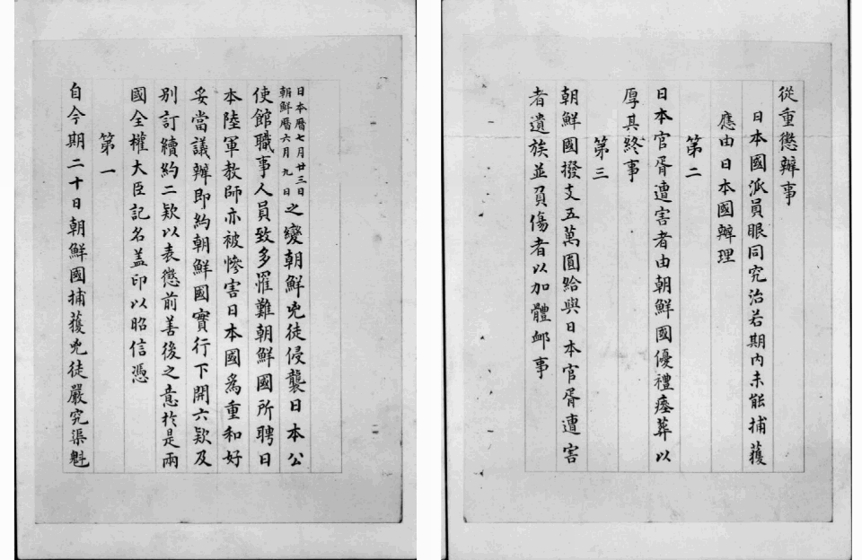 Treaty of Chemulpo, page 1-2